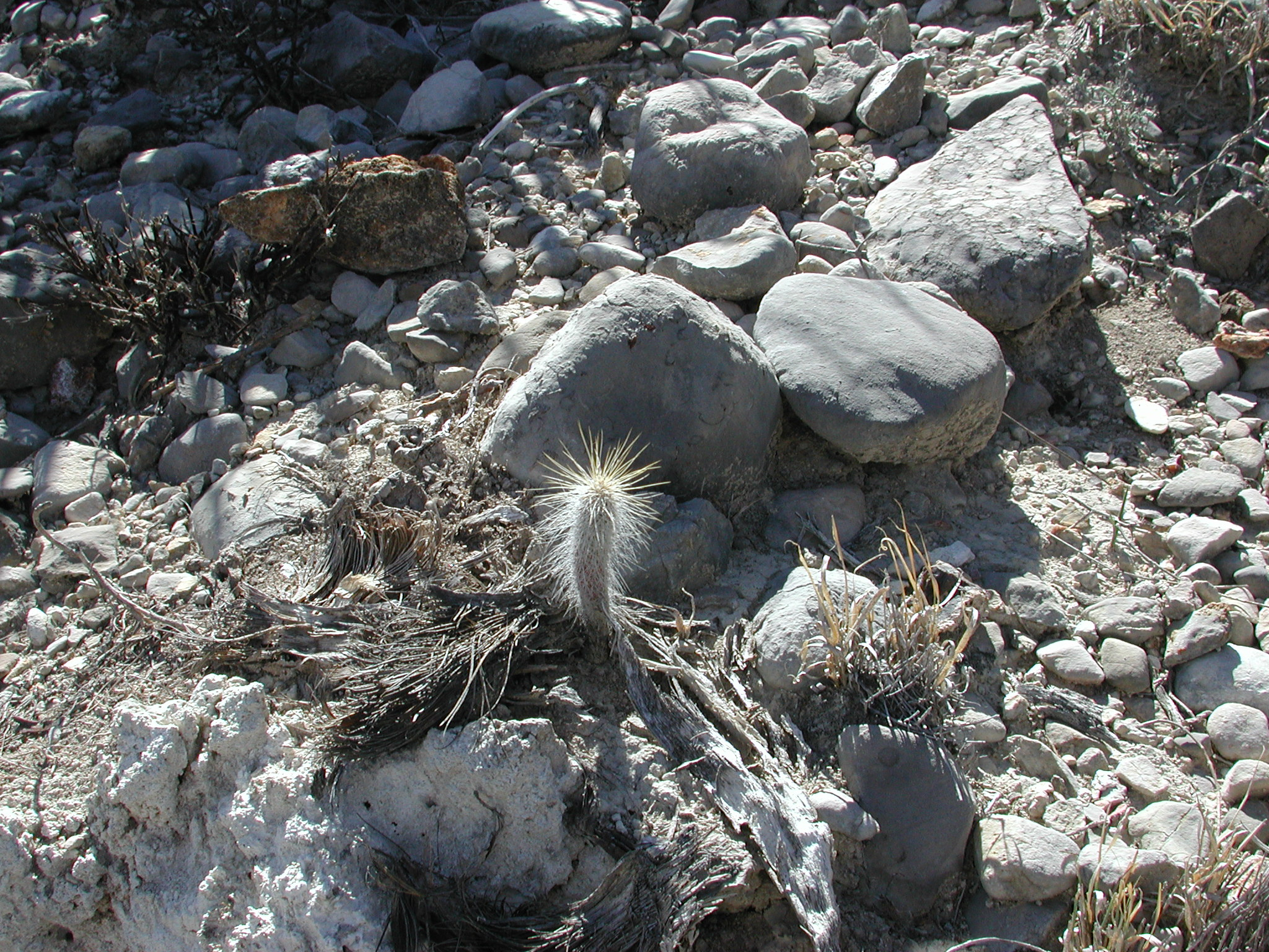 A 10cm long seedling of Cephalocereus columna-trajani. Near Tehuacán, Puebla, México. Tehuacán Valley matorral ecoregion, Tehuacán-Cuicatlán Biosphere Reserve.